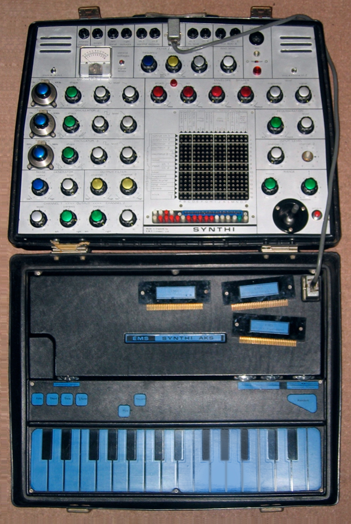 The EMS Synthi AKS synthesiser, showing briefcase-mounted synthesiser section and keyboard/sequencer unit.